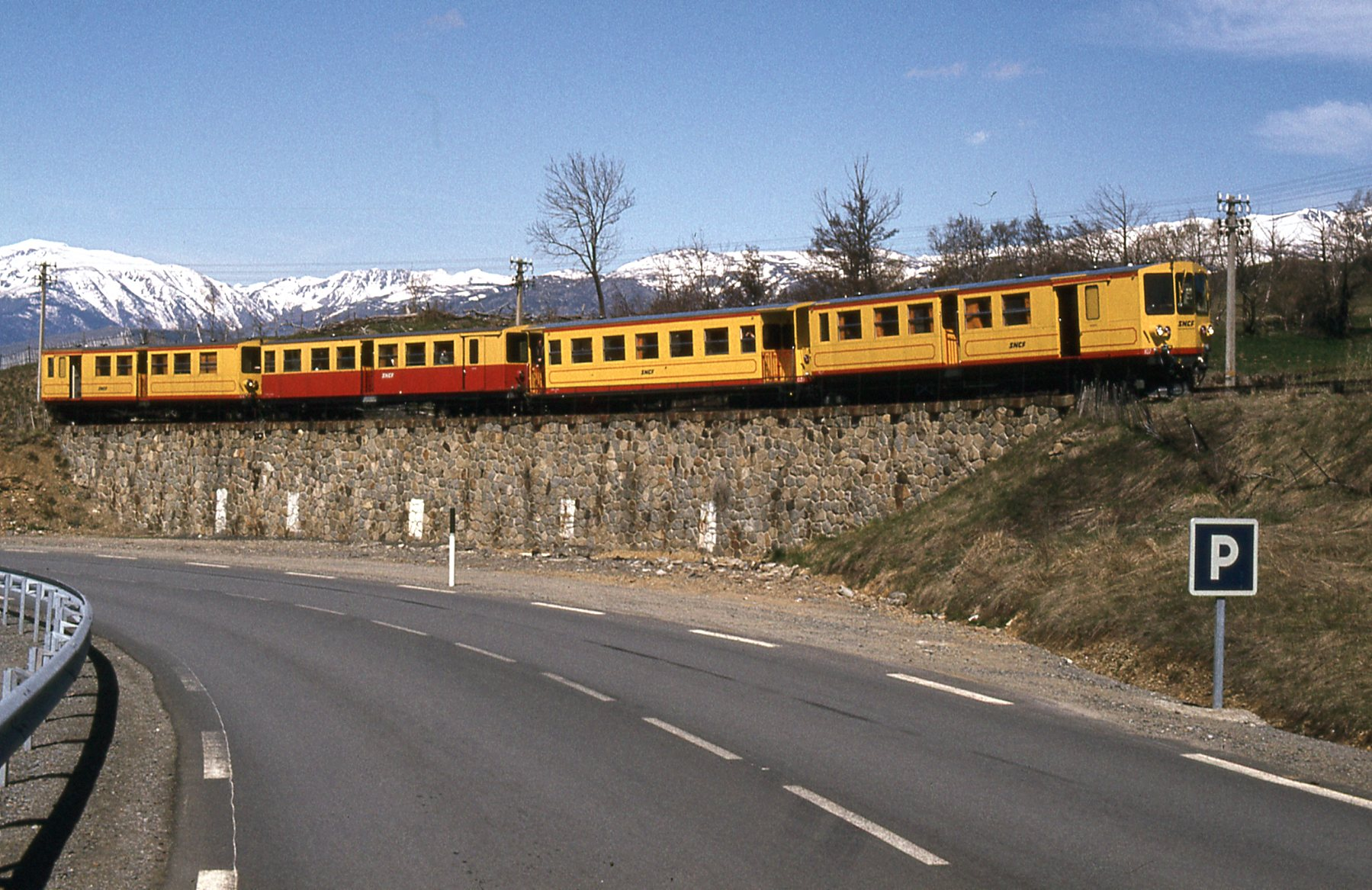 Train of the Ligne de Cerdagne, one car is still carrying an older red and yellow livery.